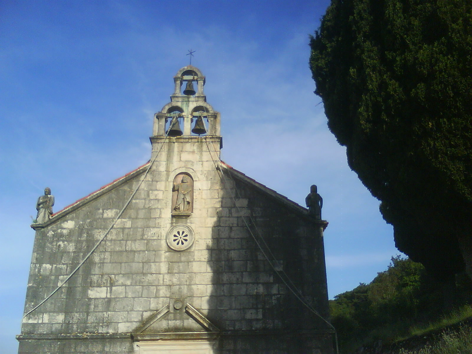 Roman Catholic church,village Potomje,Orebić municipality